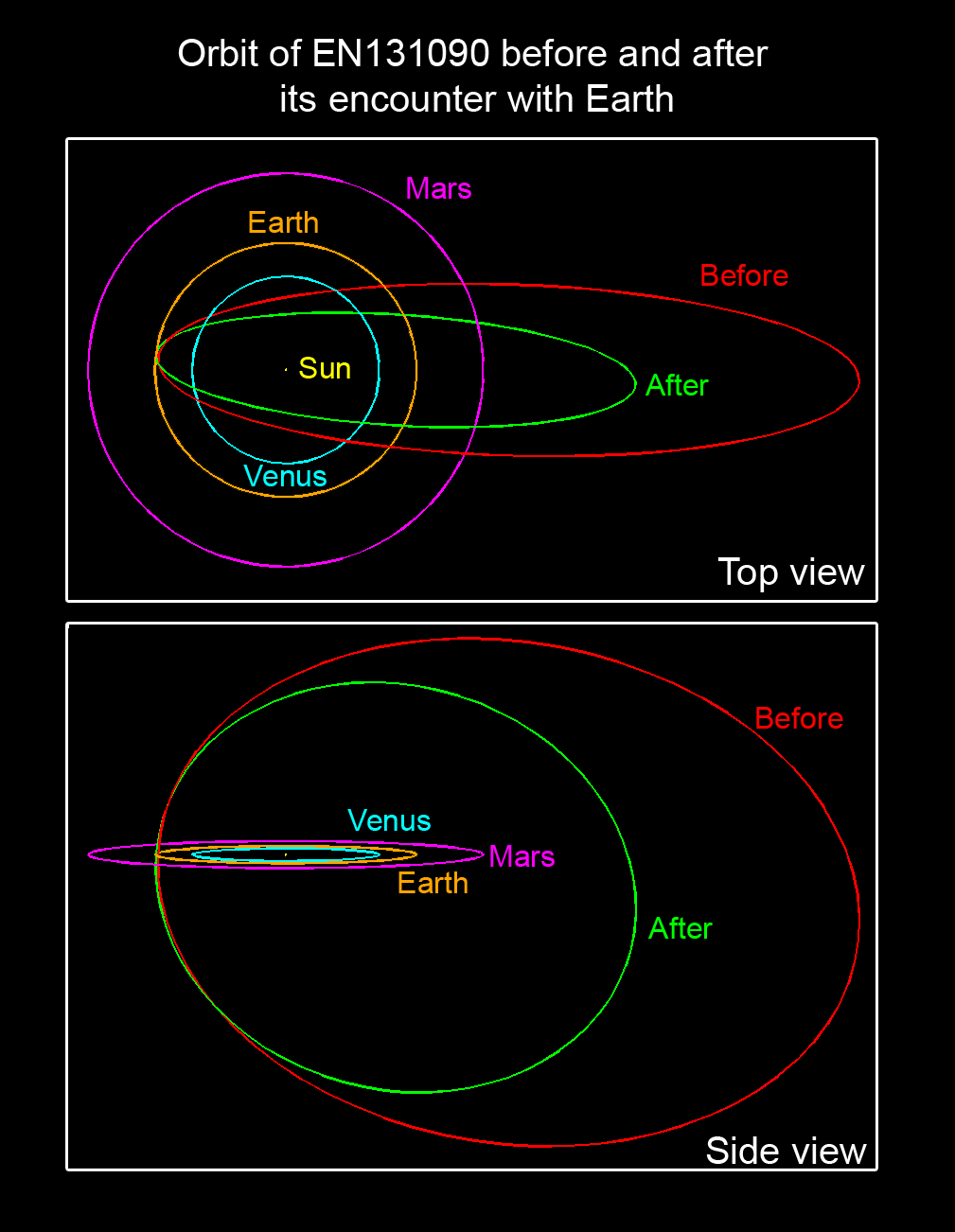 Orbital path of the Earth-grazing meteoroid of 13 October 1990 before and after it encountered Earth. Orbital paths of Venus and Mars are shown for size comparison. Note that the side view is inclined about 1 degree to allow for viewing of the planetary orbits. For orbital characteristics of the meteoroid see below.